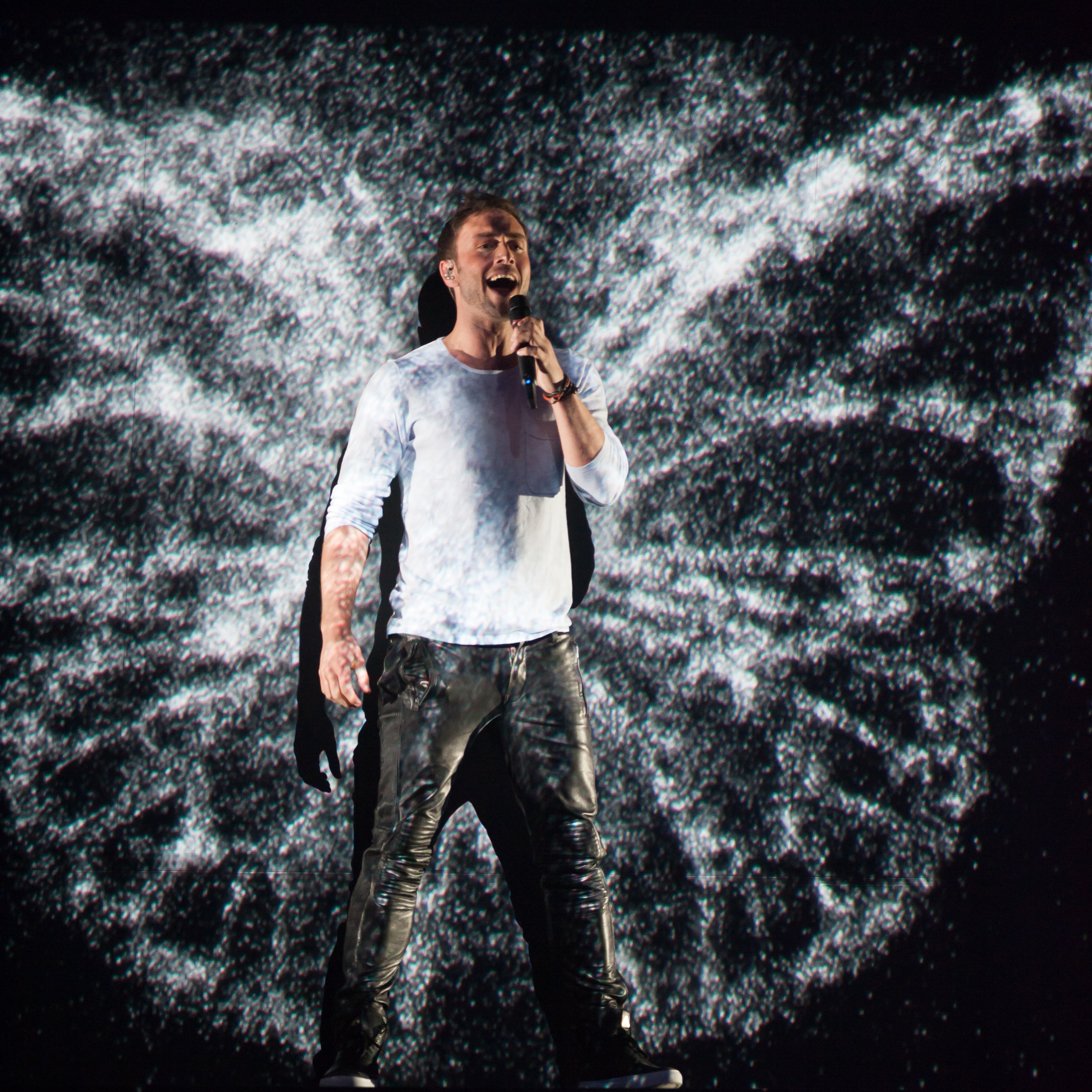 Eurovision Song Contest Vienna 2015: Måns Zelmerlöw